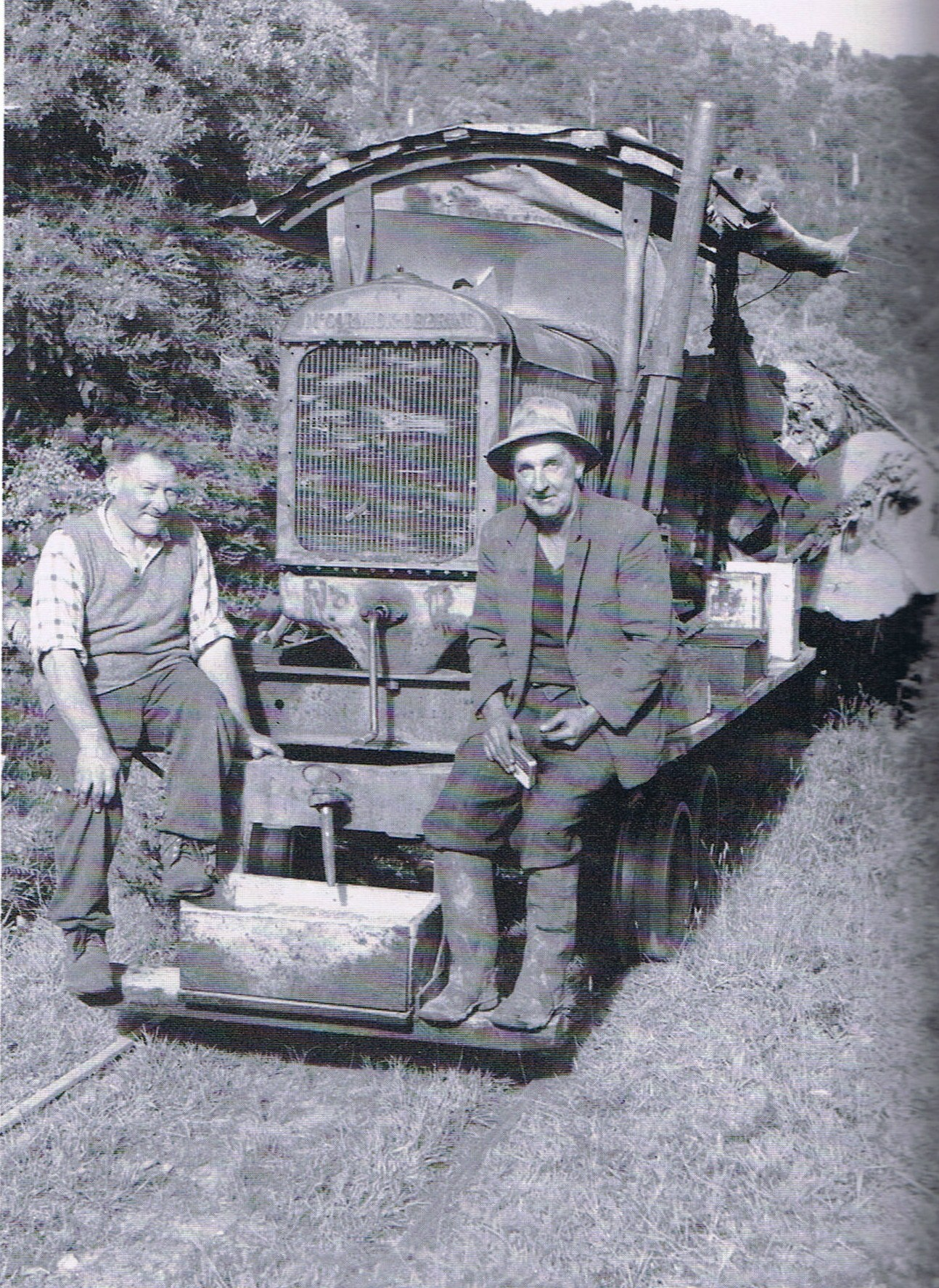 A lokey with a load of logs in Kaniere Forest. The men in the photo are Ivan Randall on the left and Bill Muir, who was the driver, on the right. Kanieri - Hokitika Sawmills was just on the eastern outskirts of Hokitika between the road to Kaniere township and the Hokitika River. The mill tram connected to the NZ Railways system via Gibson Quay. Part of this section is now used by Westland Milk Products for railing of their products. The sawmill burnt down on the 8th of May 1966.